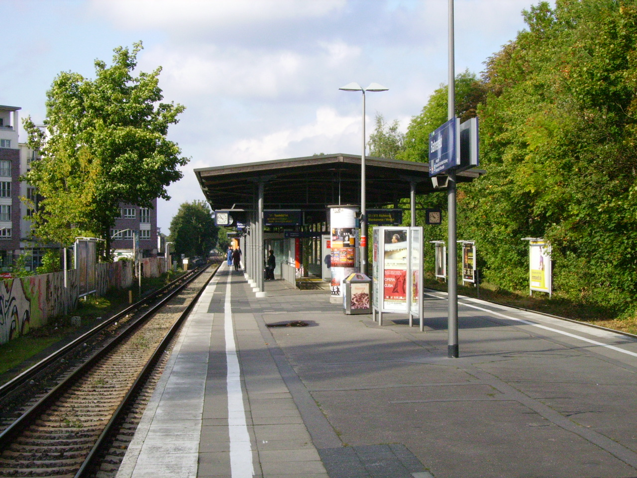 Bahrenfeld railway station, S-Bahn, platform, Hamburg, Germany